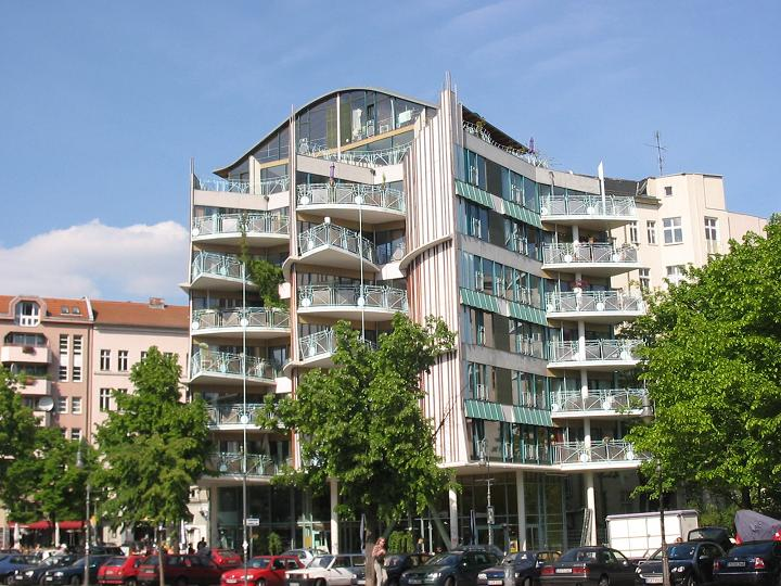 Winterfeldtplatz (place) in Berlin-Schöneberg, Germany. Residential house, built by the architect Hinrich Baller.